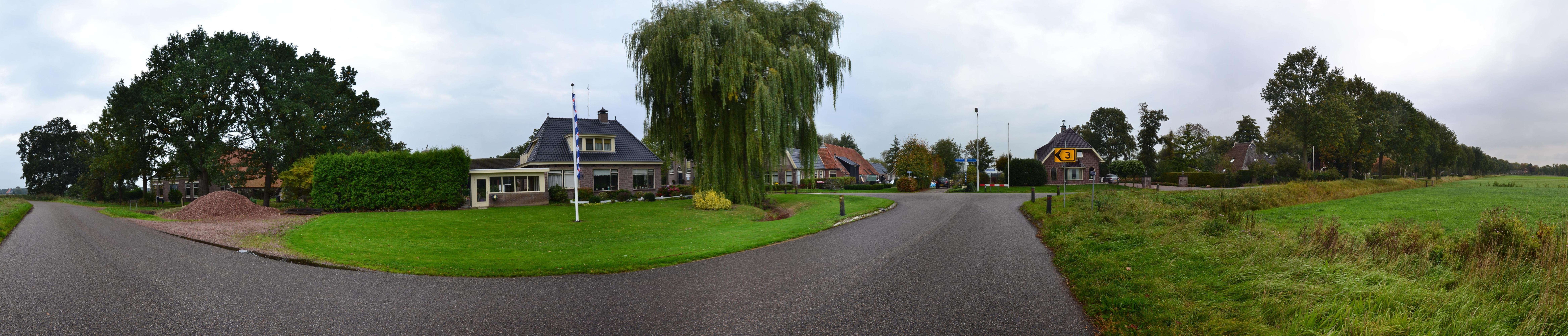 Panoramic of Oldetrijne, Friesland, the Netherlands, gemaakt met AutoStitch